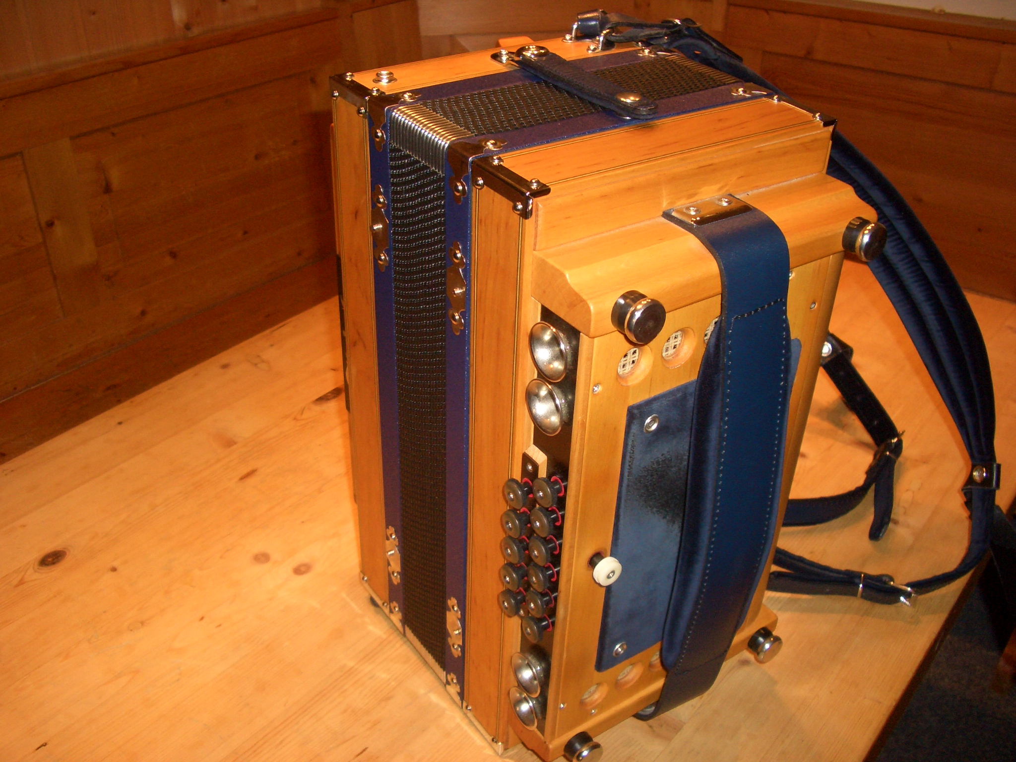 Spirk diatonic Accordion with 3 and 1/2 rows, base side